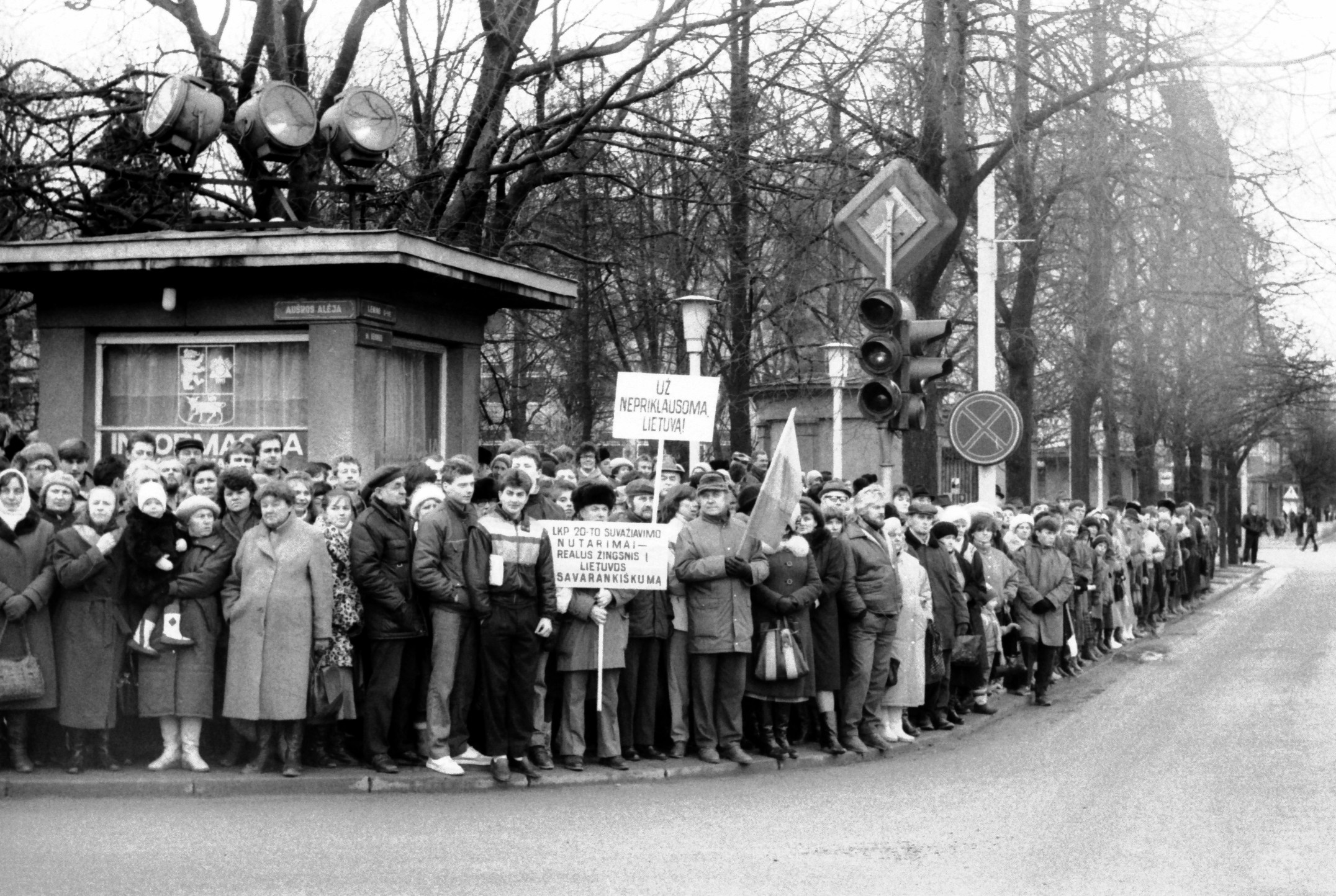 Visit of Mikhail Gorbachew 1990-01-12 in Šiauliai, Lithuania